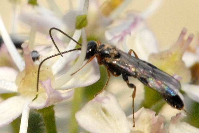 Bathythrix pellucidator from Commanster, Belgian High Ardennes .